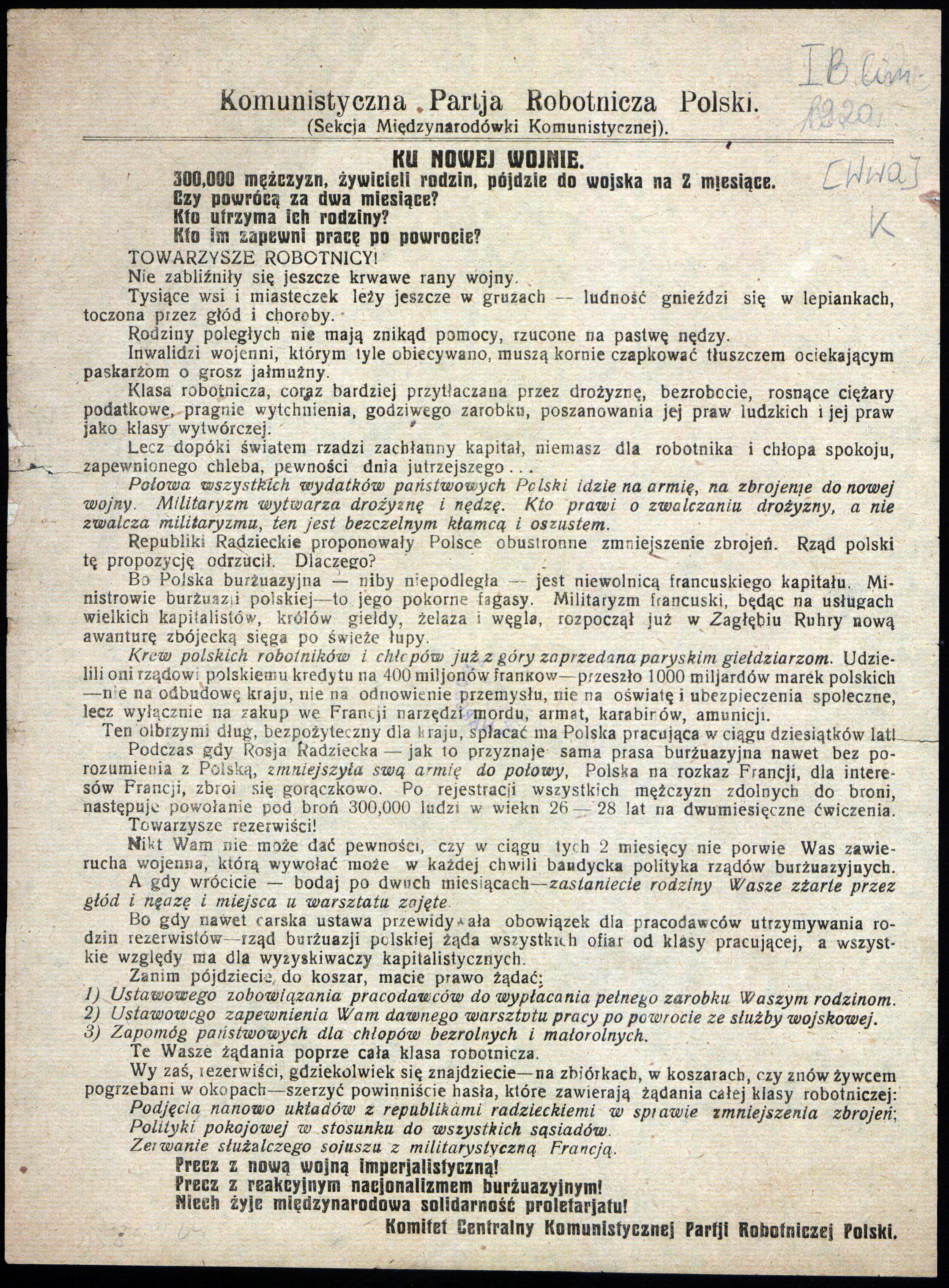 Leaflet of Communist Party of Poland